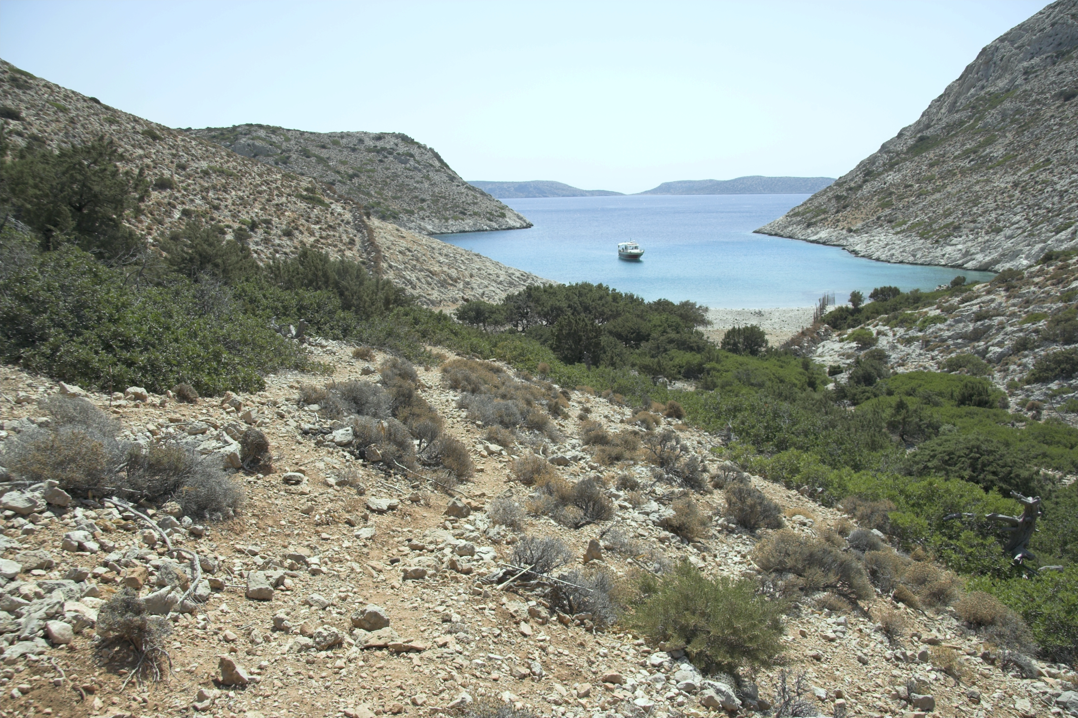 Keros, the southern coast. Landing on a mysterious sacred island. We are allowed to move away from the bay just 50 meters away. On the horizon is a double island Antikeros.